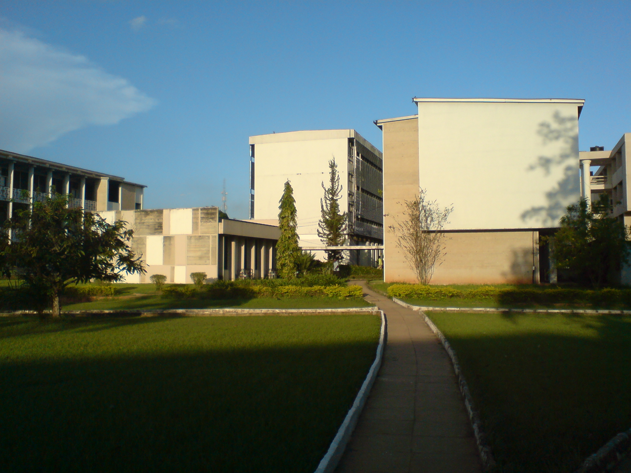 Kwame Nkrumah University of Science and Technology: Side view of the College of Architecture and Planning.